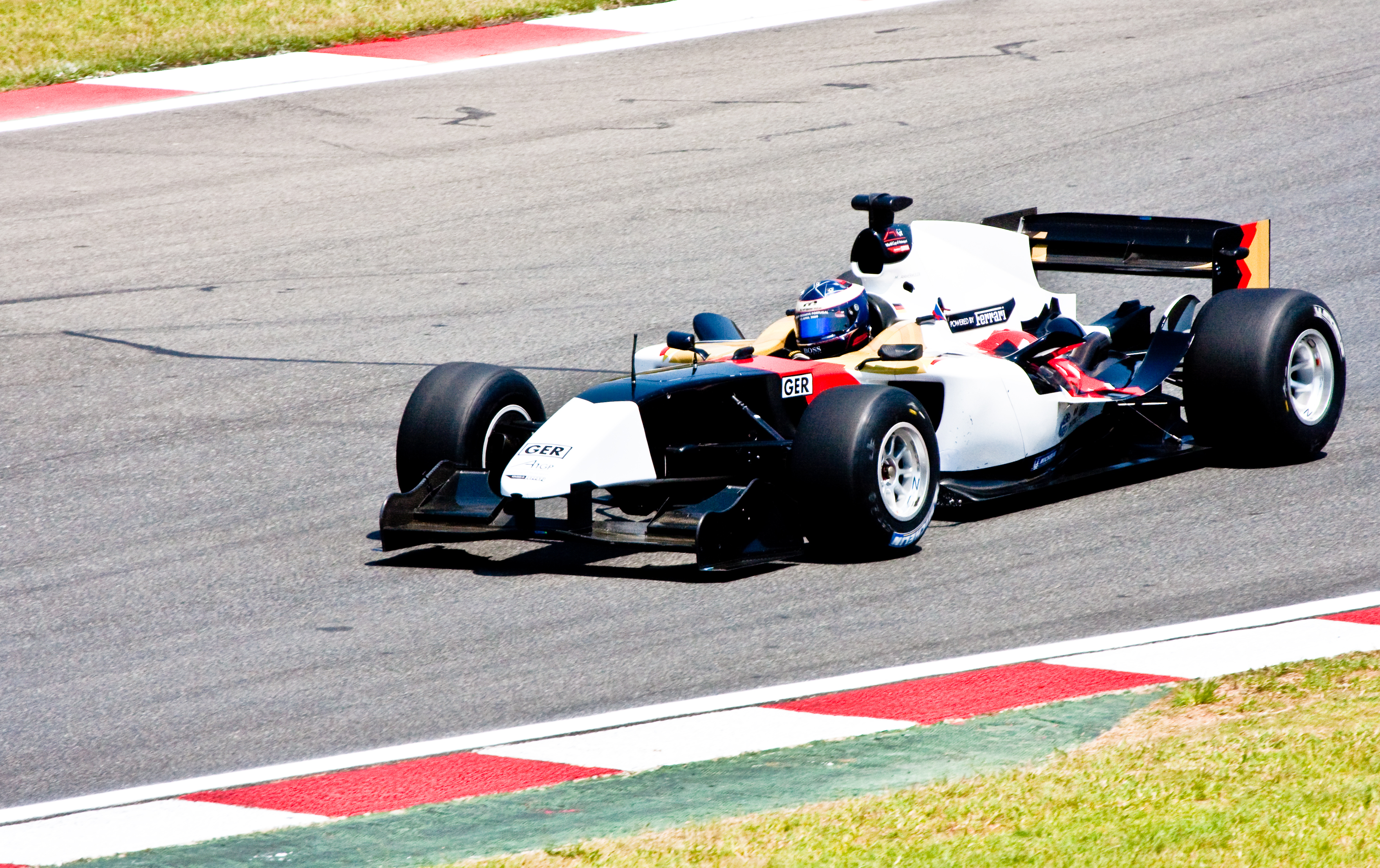 Team Germany @ A1 Grand Prix, Kyalami, Gauteng, South Africa, February 2009